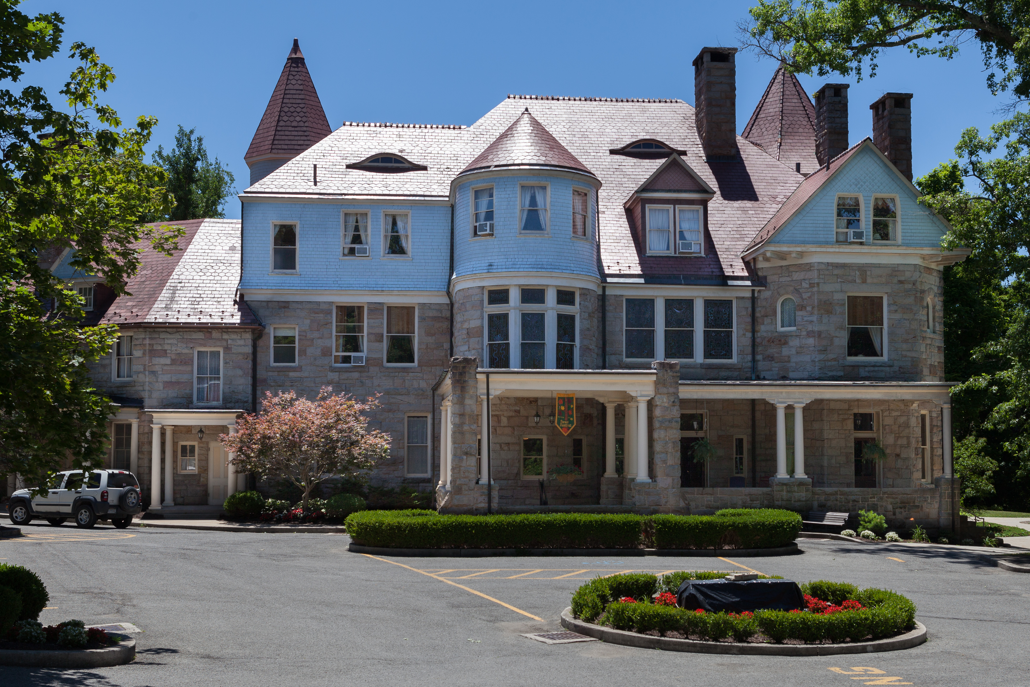 Graceland